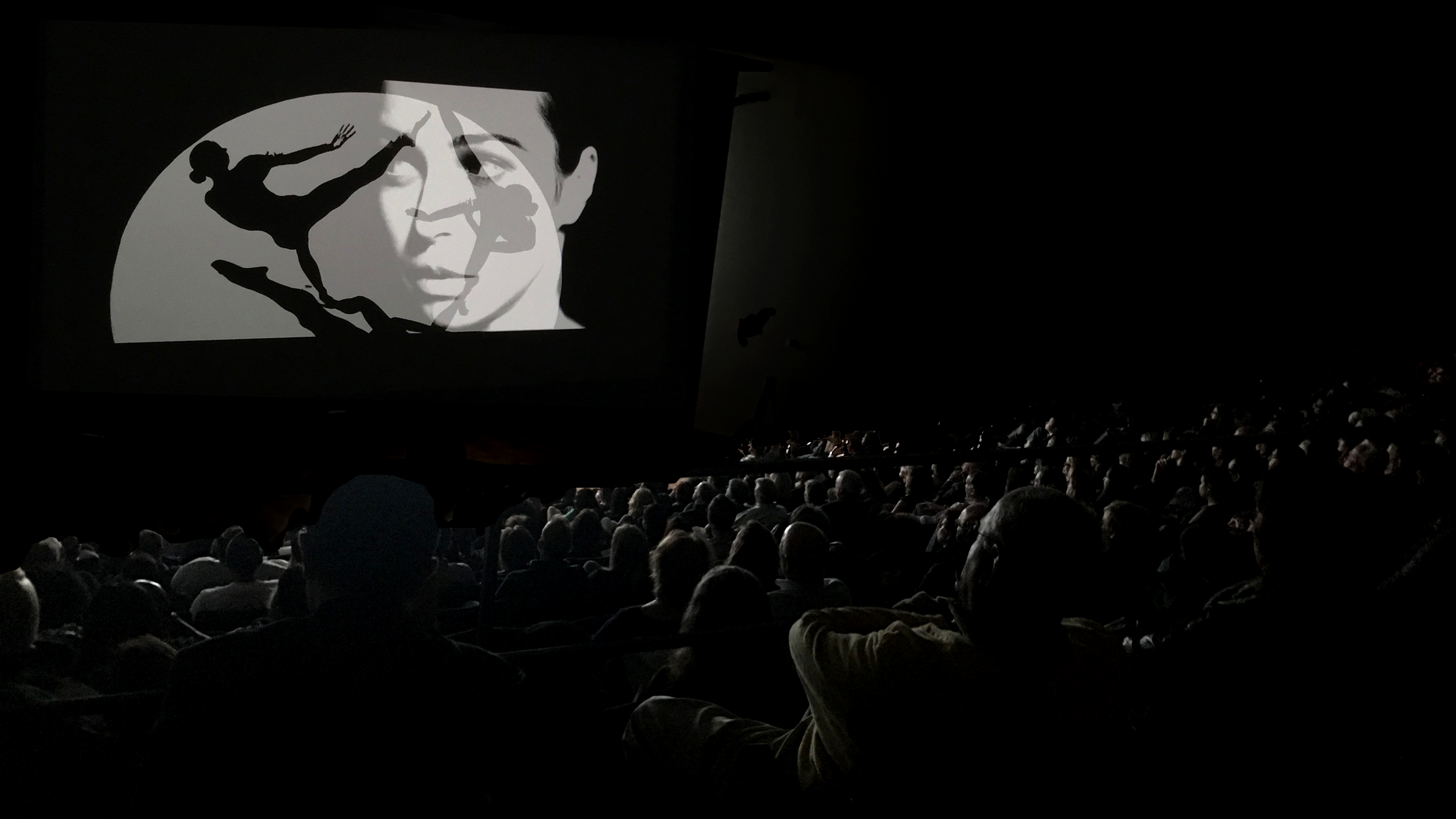 Gravitation screening at the Museum of Fine Arts in Houston, October 2015.